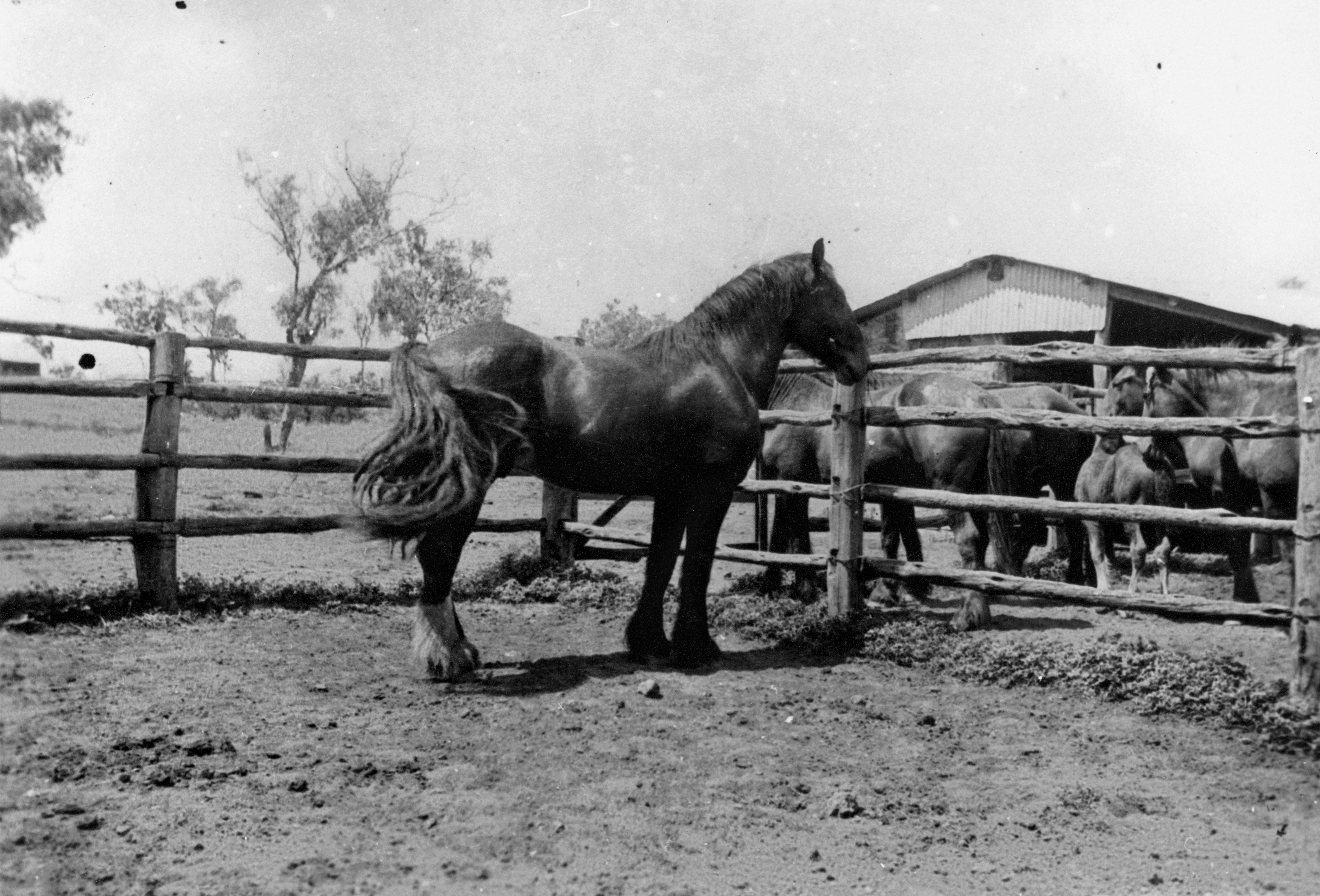 Horses at Surbiton Station in the Alpha district, near Longreach, ca. 1940